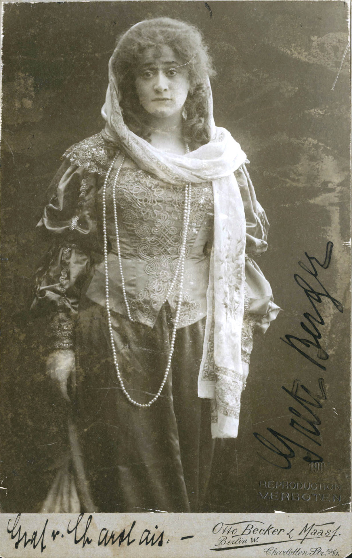 Promotional postcard portrait of Austrian-German actress Grete Berger (1883–1944) by Becker & Maass.